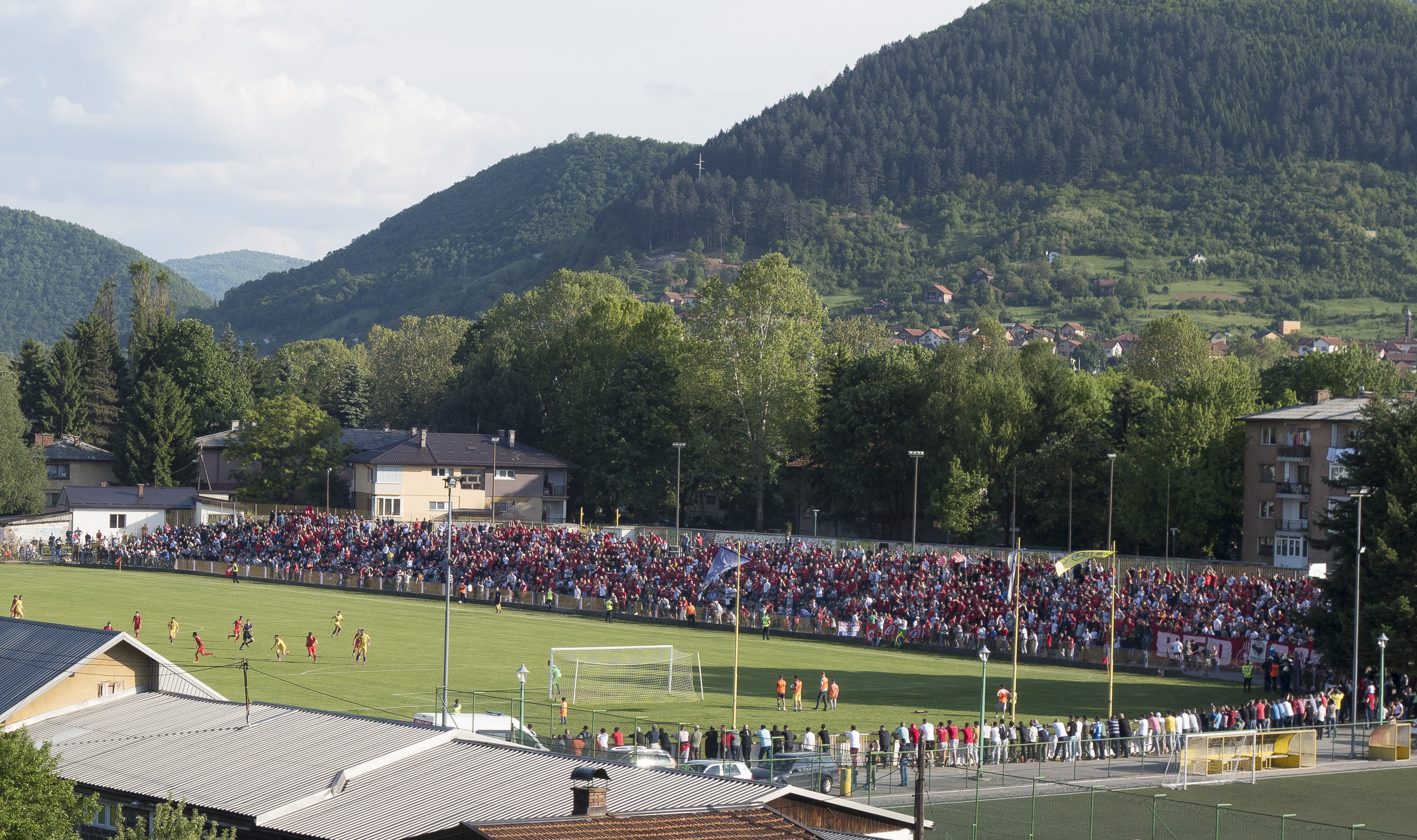 FK Velež supporters during match in Visoko against NK Bosna